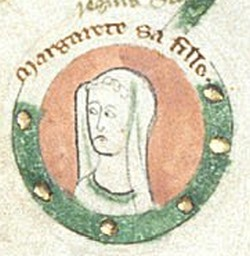 Margaret of England